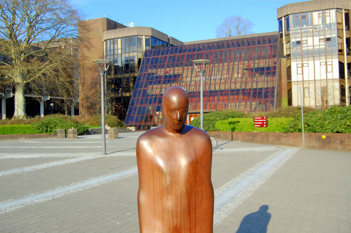 Antony Gormley's cast iron sculpture located in the Central Plaza at the University of Limerick.